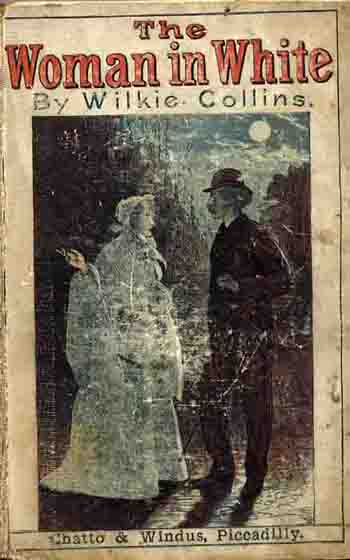 Wilkie Collins (British, 1824-1889): The woman in white, front cover published in 1890